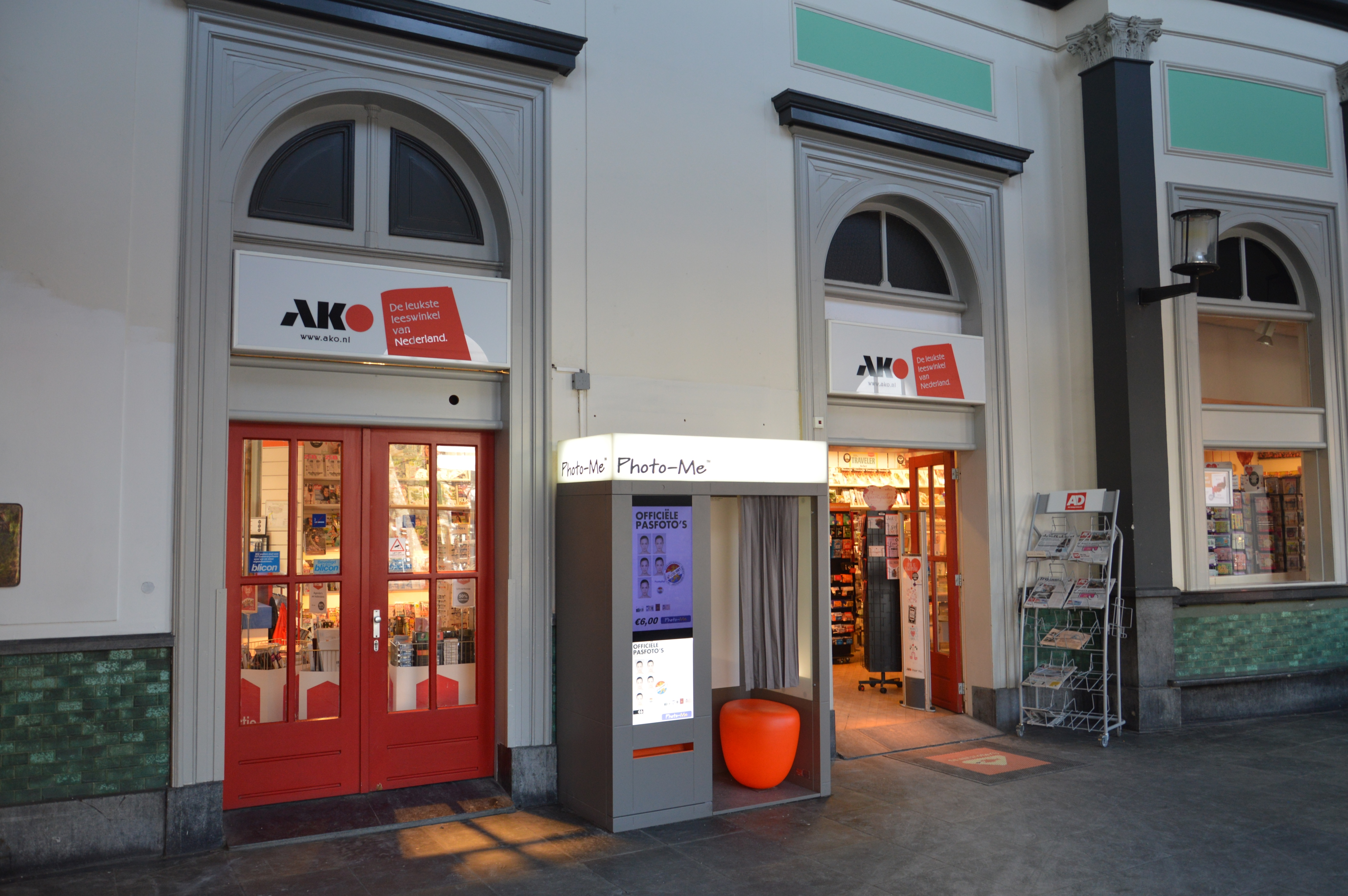 Dordrecht railway station, the Netherlands. Station hall with bookshop.